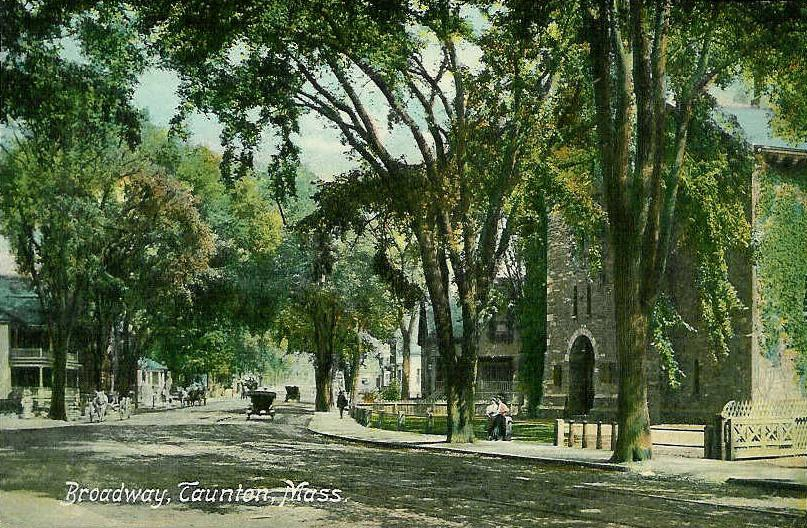 View of Broadway, Taunton, Massachusetts; from a c. 1908 postcard published by the Metropolitan News Company, Boston, Massachusetts. Designed by Richard Upjohn, Pilgrim Congregational Church was constructed in 1851.